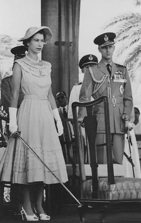 Queen Elizabeth in Aden Colony, 1954, wielding a spadroon in preparation to knight Claude Pelly and Sayyid Abubakr. Prince Phillip is visible at the side. This was the first public investiture of the tour.